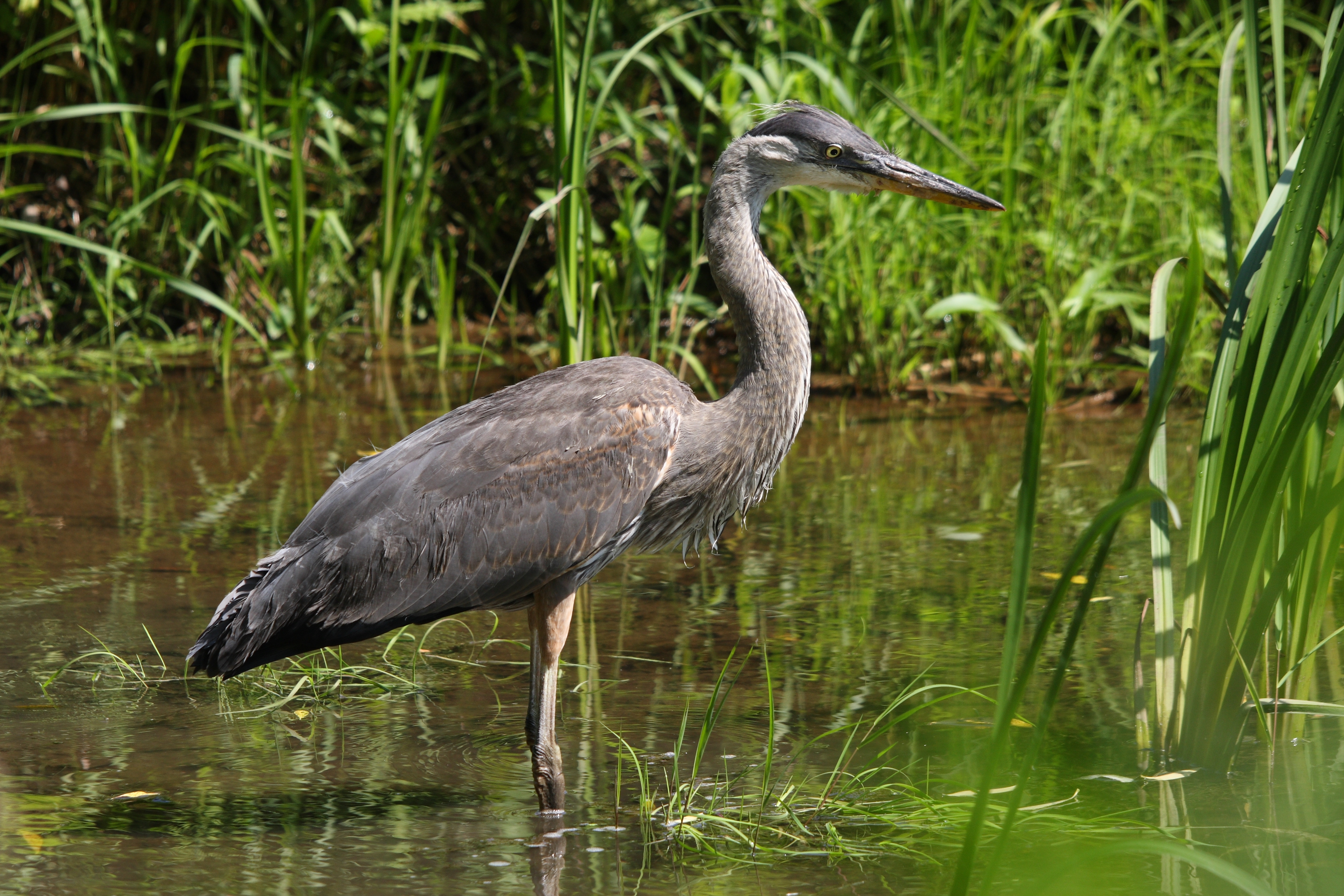 Great Blue Heron, immature, Cap Tourmente National Wildlife Area, Quebec, Canada